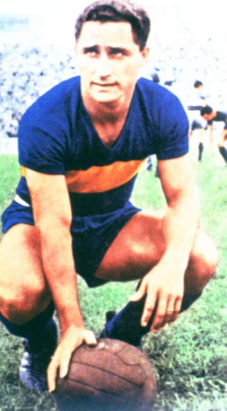 This is a photograph of José Francisco Sanfilippo taken in 1963 during his time with Boca Juniors in Argentina.